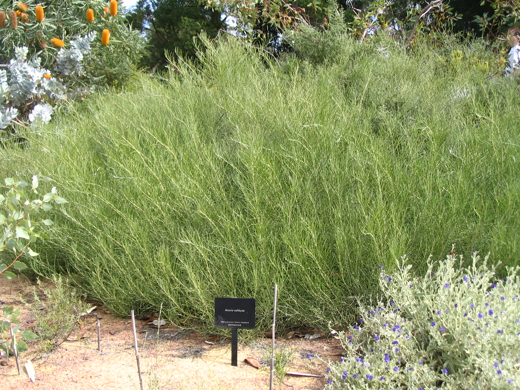 Acacia ashbyae plant in Kings Park, Perth, Australia. Ashby's Banksia are blooming in the background in the upper-left. Unknown plant lower-right.